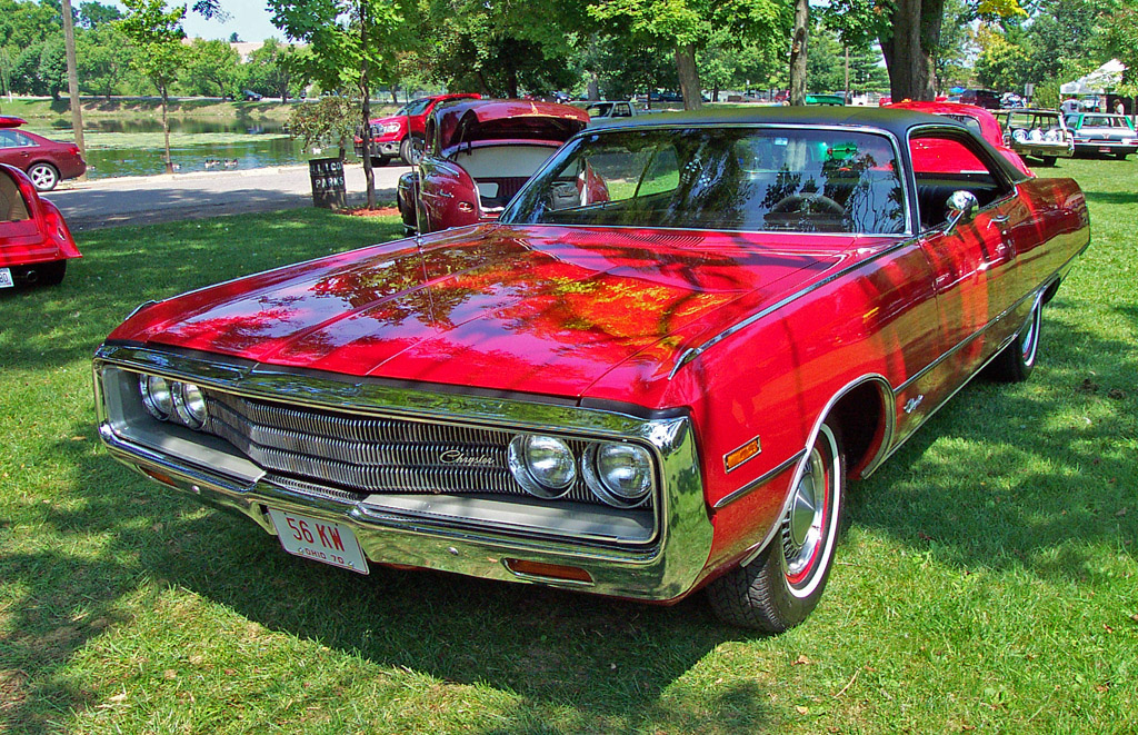 The friendly owners kept the hood down long enough for me to take the photo. Their Chrysler looks like it just came out of the showroom 39 years ago. I saw it at the Igniters Street Rods show in Yoctangee Park, Chillicothe, Ohio.